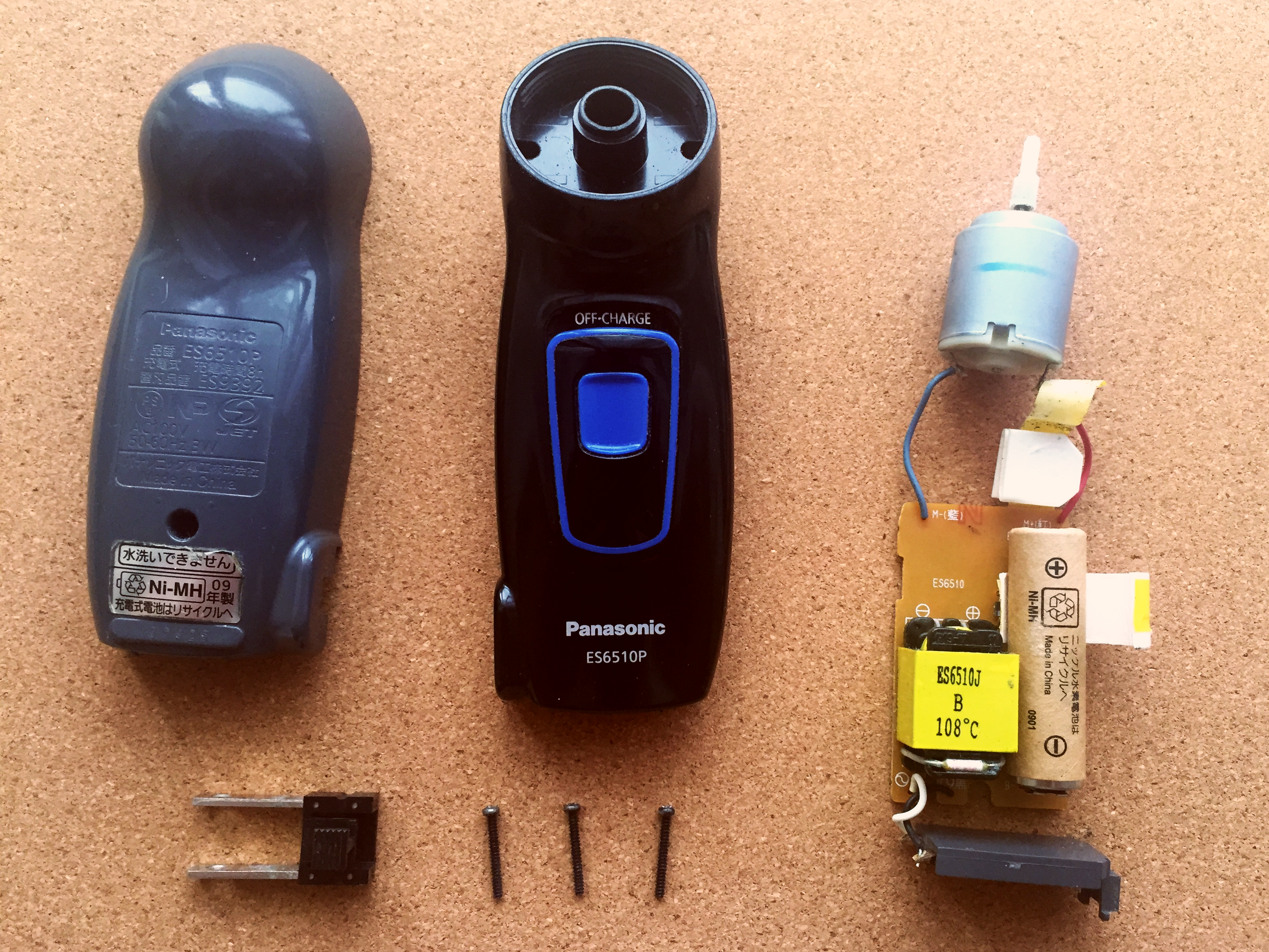 Electric Shaver: Panasonic Spinnet ES-6501P (Japanese specification).